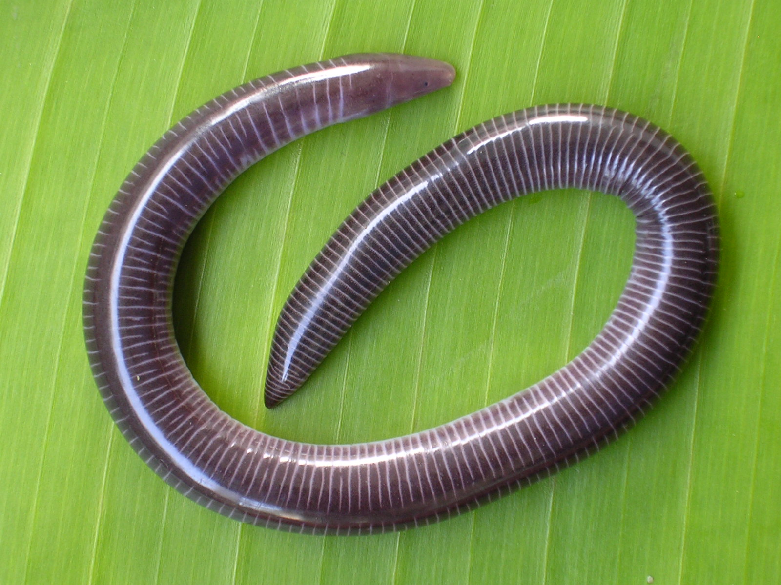 Uraeotyphlus narayani habitus